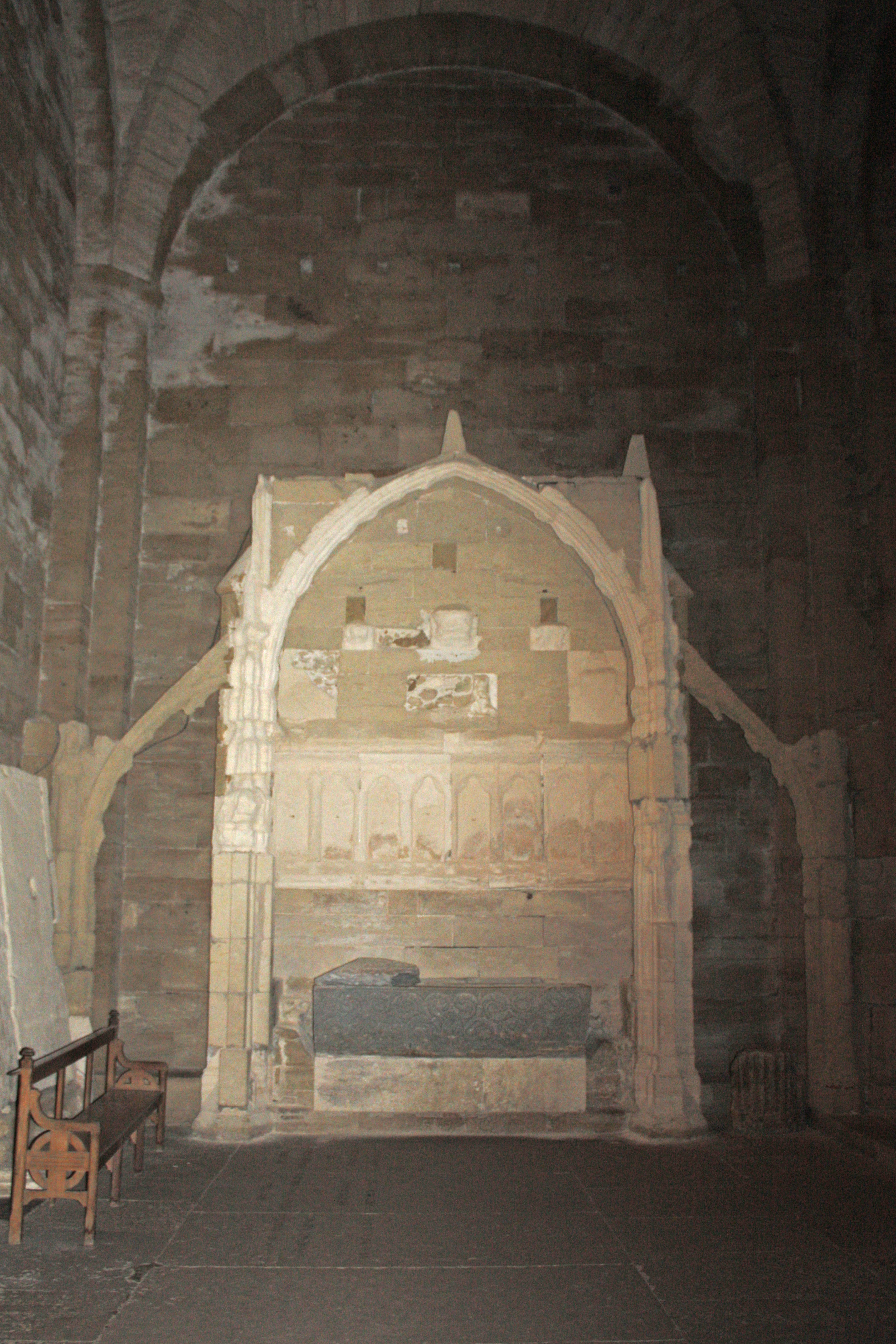 Chapel of the Holy Sepulchre: The Gothic mausoleum, from the fourteenth century, was built for Cardinal Canillac, former provost of Maguelone. At the foot, a sarcophagus filed from the sixth century, witch the legend said to be the sépulcre of the Belle Maguelone.